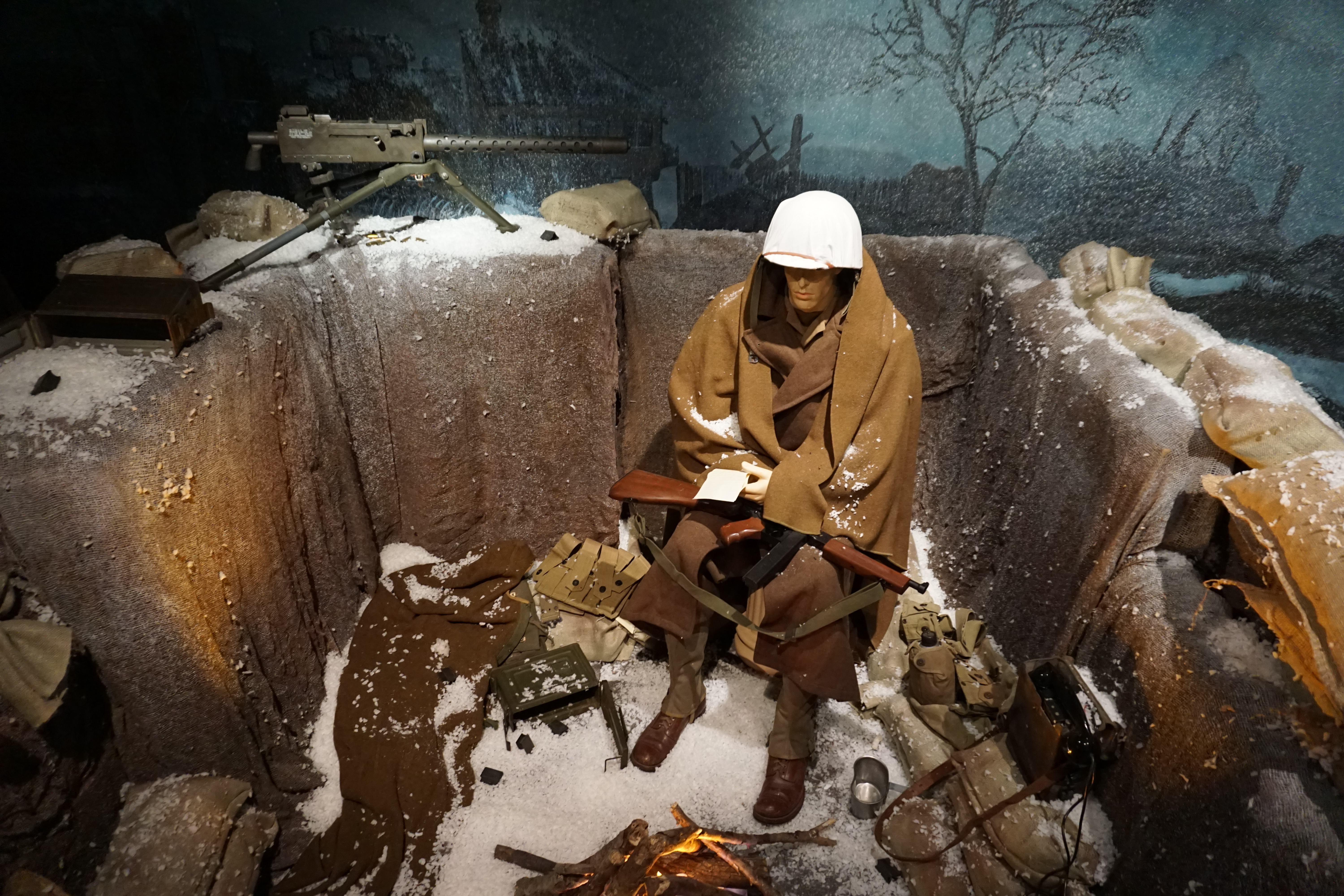 The Battle of the Bulge diorama at the Audie Murphy American Cotton Museum in Greenville, Texas (United States).